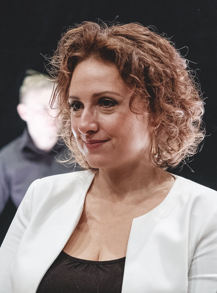 Zuzana Mauréry at the 2016 Czech Film Critics Awards held in Divadlo Archa in Prague, Czech Republic, EU